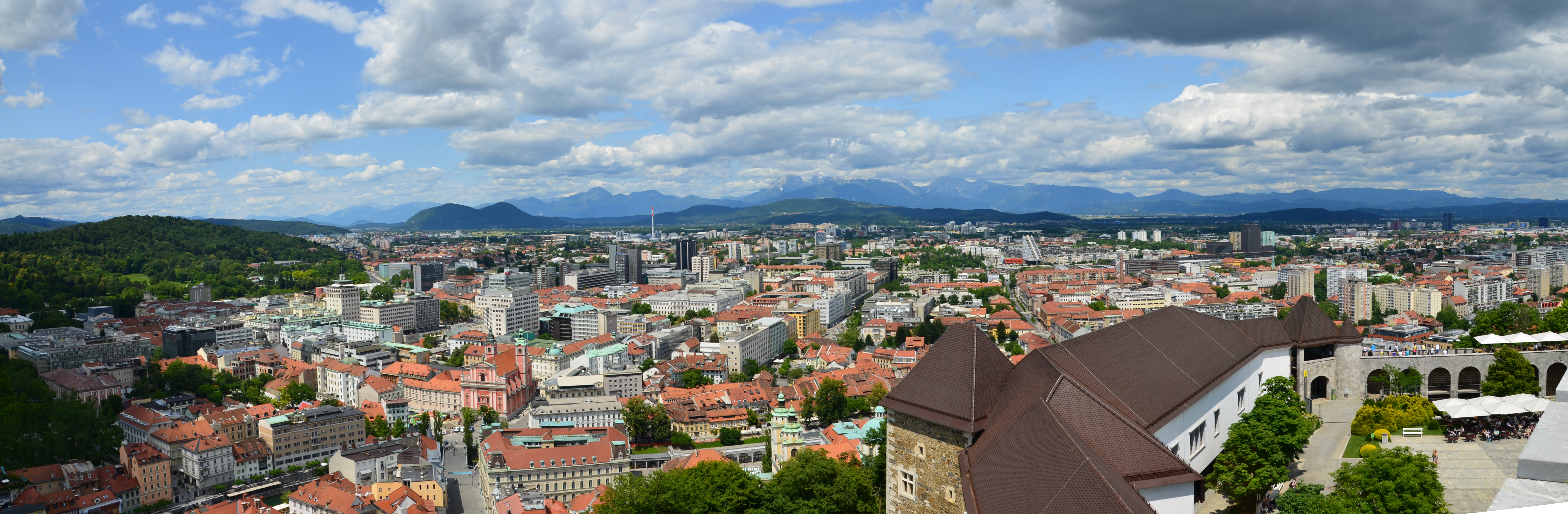 Panorama view- Ljubljana North with Kamnik Alps in background